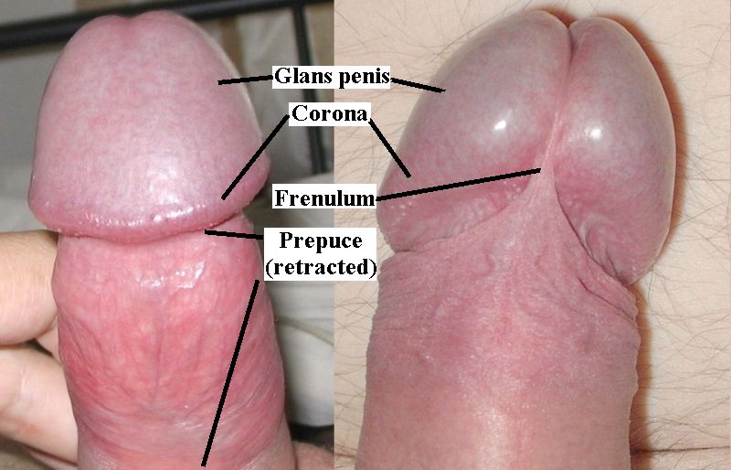 Labelled modification of Image:Penis_glans_anterior_posterior.jpg created by user:Nandesuka